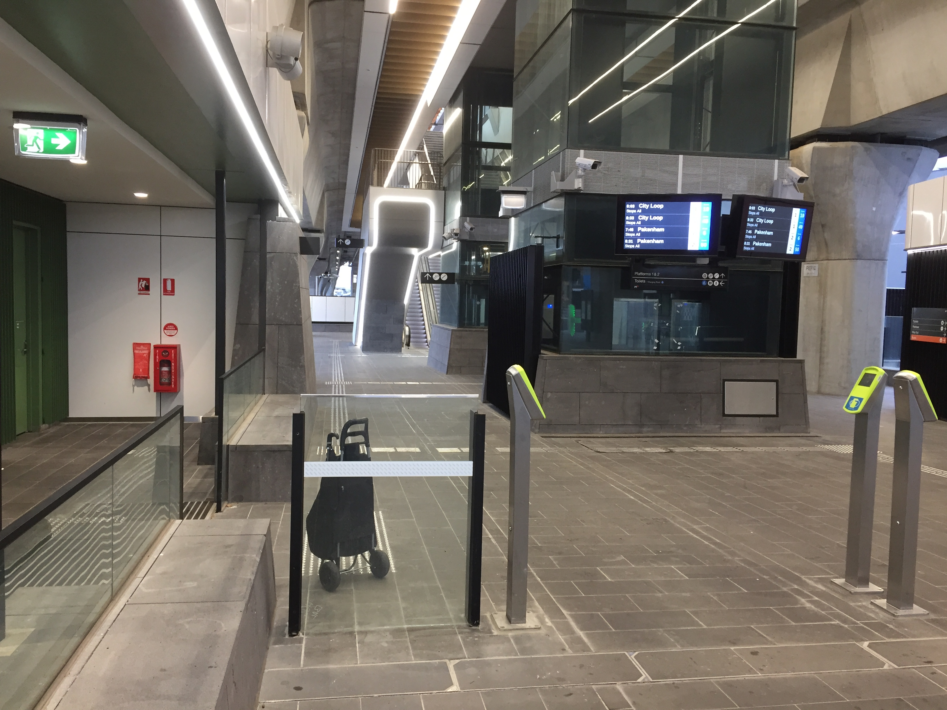 Hughesdale Railway Station Entrance 2 - April 2019